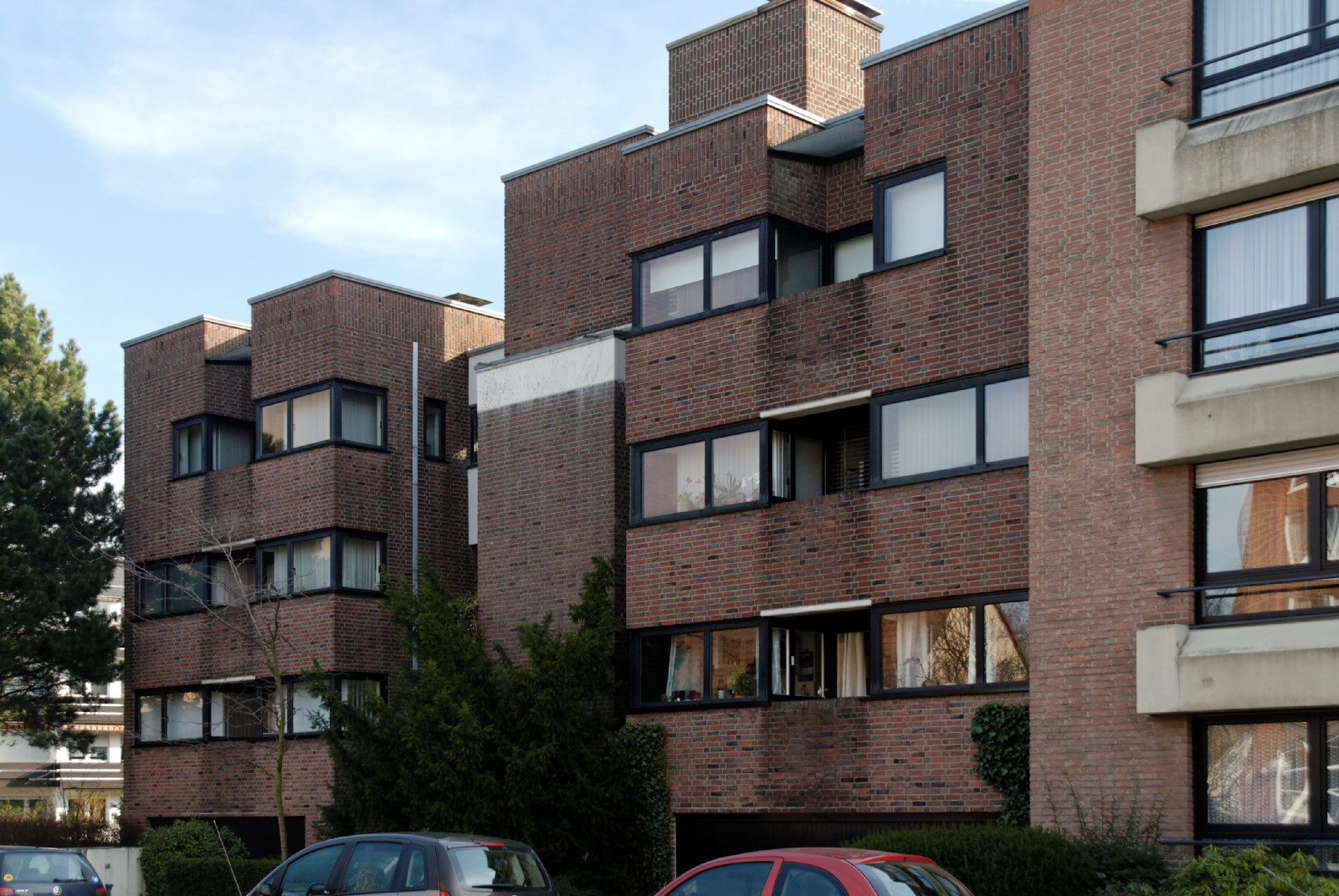 House Varnhagenstraße 38 in Düsseldorf-Bilk, Germany